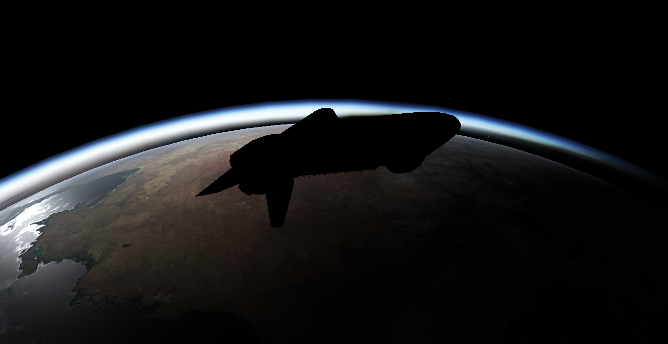 SpaceShuttle in FlightGear -- in orbit at sunrise. Using experimental orbital view rendering.